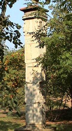 Swietowit - Otrebusy